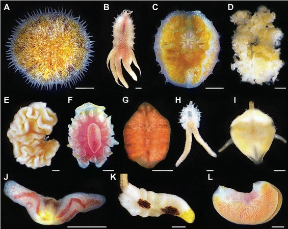 Diversity of Myzostomida and their relationships with echinoderm hosts. (A)Myzostoma capitocutis (Myzostomatidae), free-living. (B)Myzostoma eeckhauti nomen nudum (Summers & Rouse, in press.) (Myzostomatidae), free-living. (C)Pulvinomyzostomum inaki nomen nudum (Summers & Rouse, in press.) (Pulvinomyzostomatidae), found in or near mouth. (D)Mesomyzostoma sp. (Myzostomatidae, previously Mesomyzostomatidae), resides within the host’s coelom.(E)Asteromyzostomum grygieri nomen nudum (Summers & Rouse, in press.) (Asteromyzostomatidae), recovered externally with mouth pierced through body wall. (F)Notopharyngoides aruensis (Myzostomatidae), found in mouth. (G)Protomyzostomum roseus nomen nudum (Summers & Rouse, in press.) (Protomyzostomatidae), found within the host’s coelom. (H)Myzostoma divisor (Myzostomatidae), free-living.(I)Notopharyngoides platypus (Myzostomatidae), resides permanently in cysts. (J)Contramyzostoma bialatum (Myzostomatidae, previously Endomyzostomatidae), resides permanently in cysts. (K)Myzostoma longitergum (Myzostomatidae), free-living. (L). Endomyzostoma neridae nomen nudum (Summers & Rouse, in press.) (Endomyzostomatidae), lives within galls. A, D, I, K—Raja Ampat, Indonesia. B, J—Madang Habor, Papua New Guinea. C—Costa Rica. E, H—Antarctica. F—Lizard Island, Australia. G—Monterey, California. L—Dili, East Timor. Scale bars 1 mm (A, D-G, I-L); 0.5 mm (H); 0.2 mm (B, C).